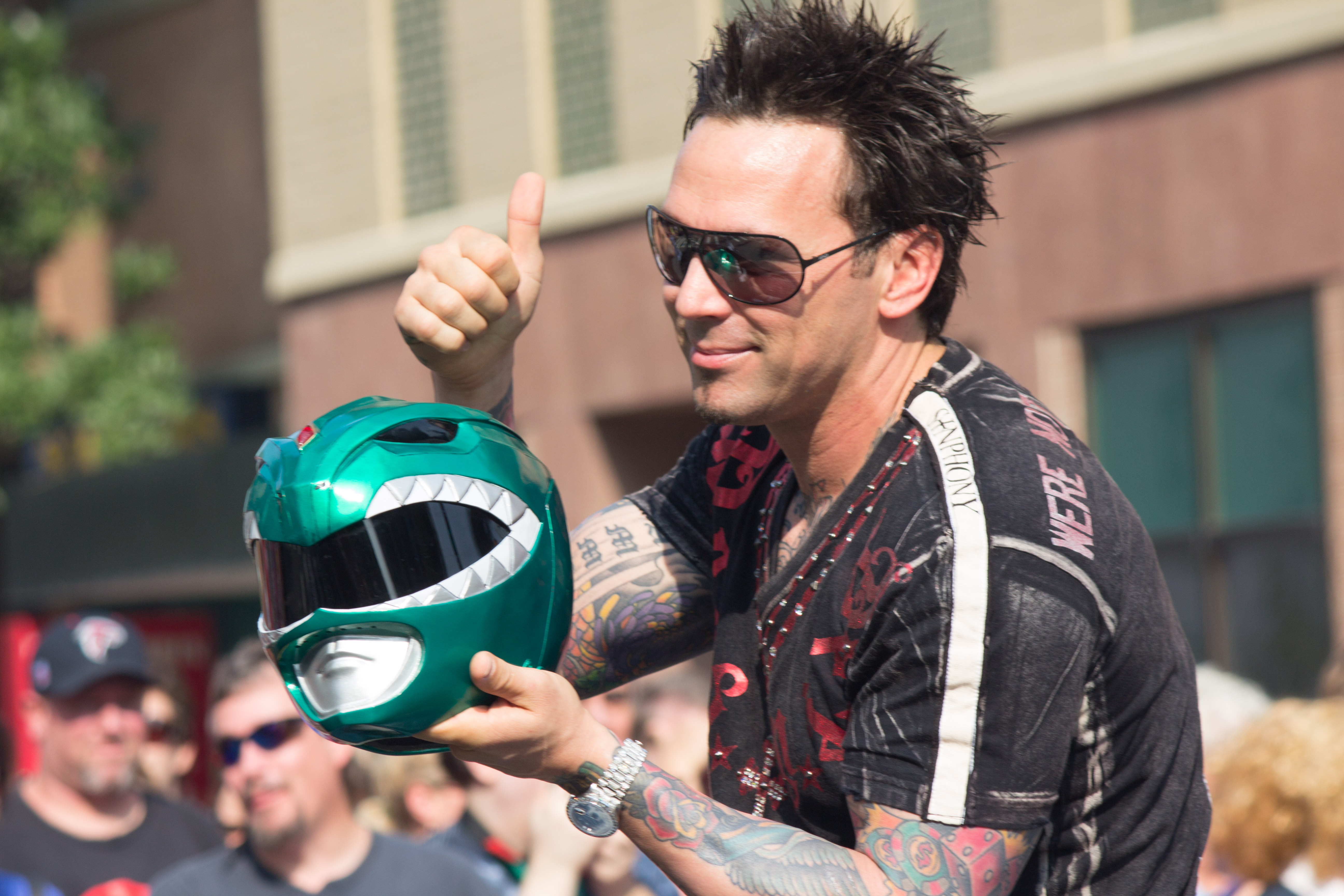 The 2013 Dragon*Con parade through Atlanta.